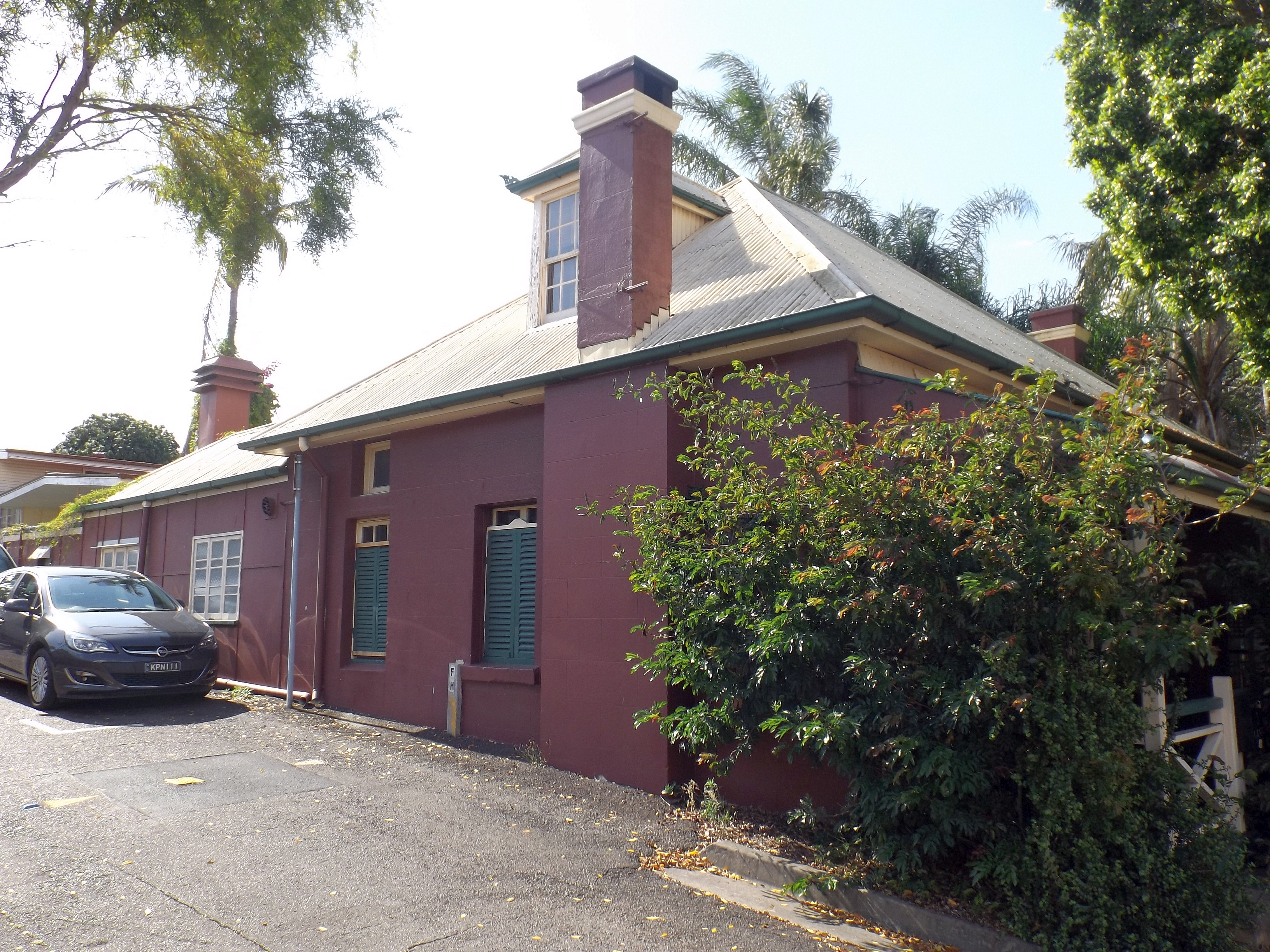 Photo of Ginn Cottage, Ipswich, Queensland, Australia.